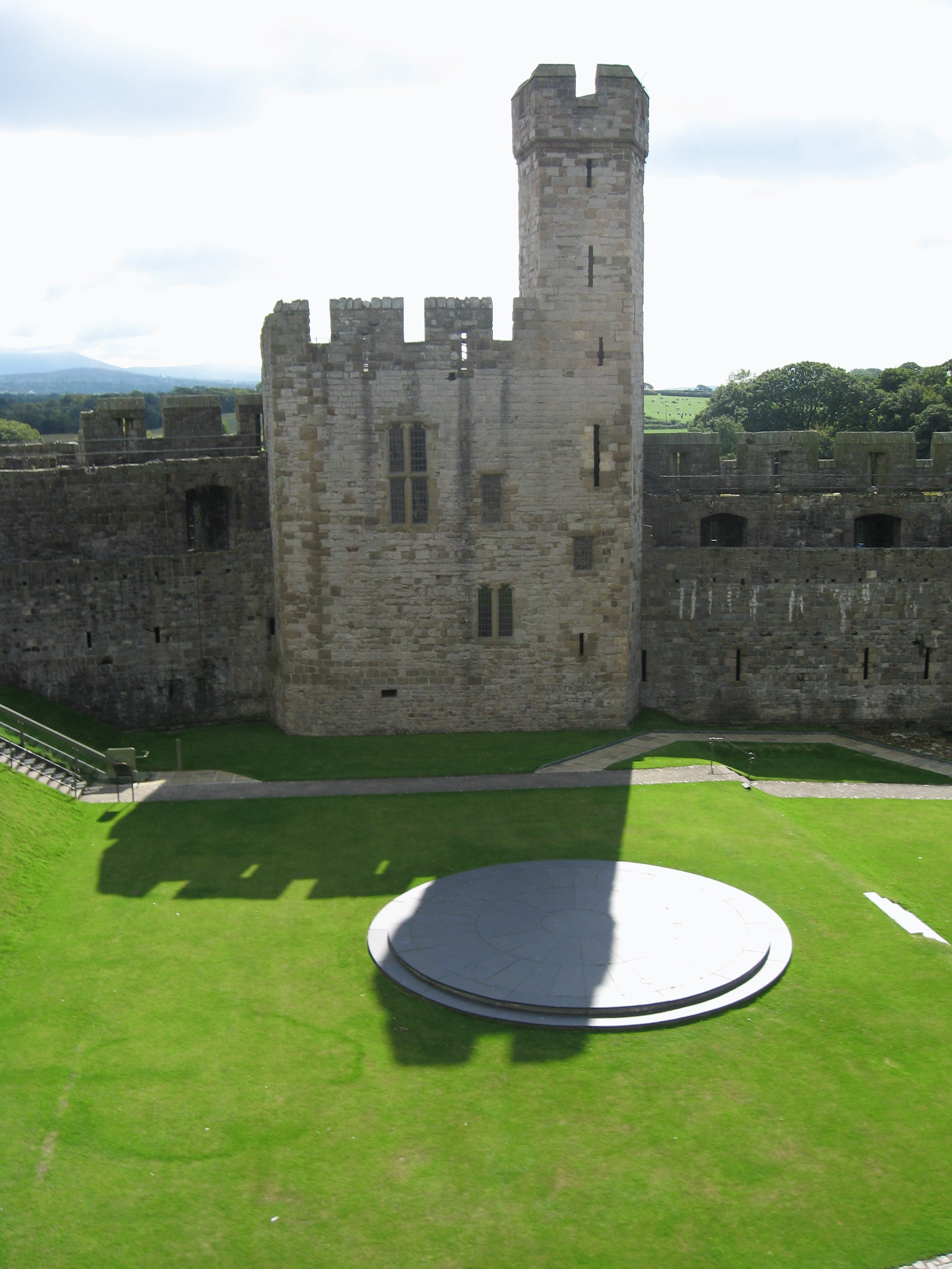 Caernarfon Castle:The Black Tower